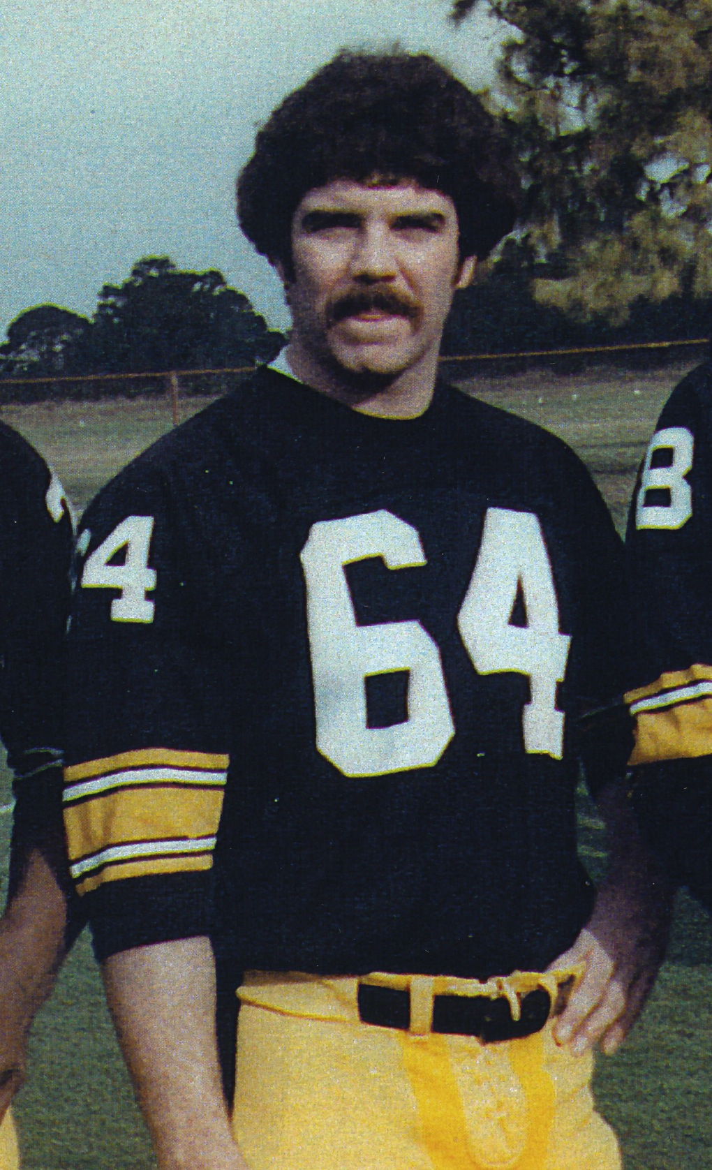 Steve Furness at Pittsburgh Steelers training camp